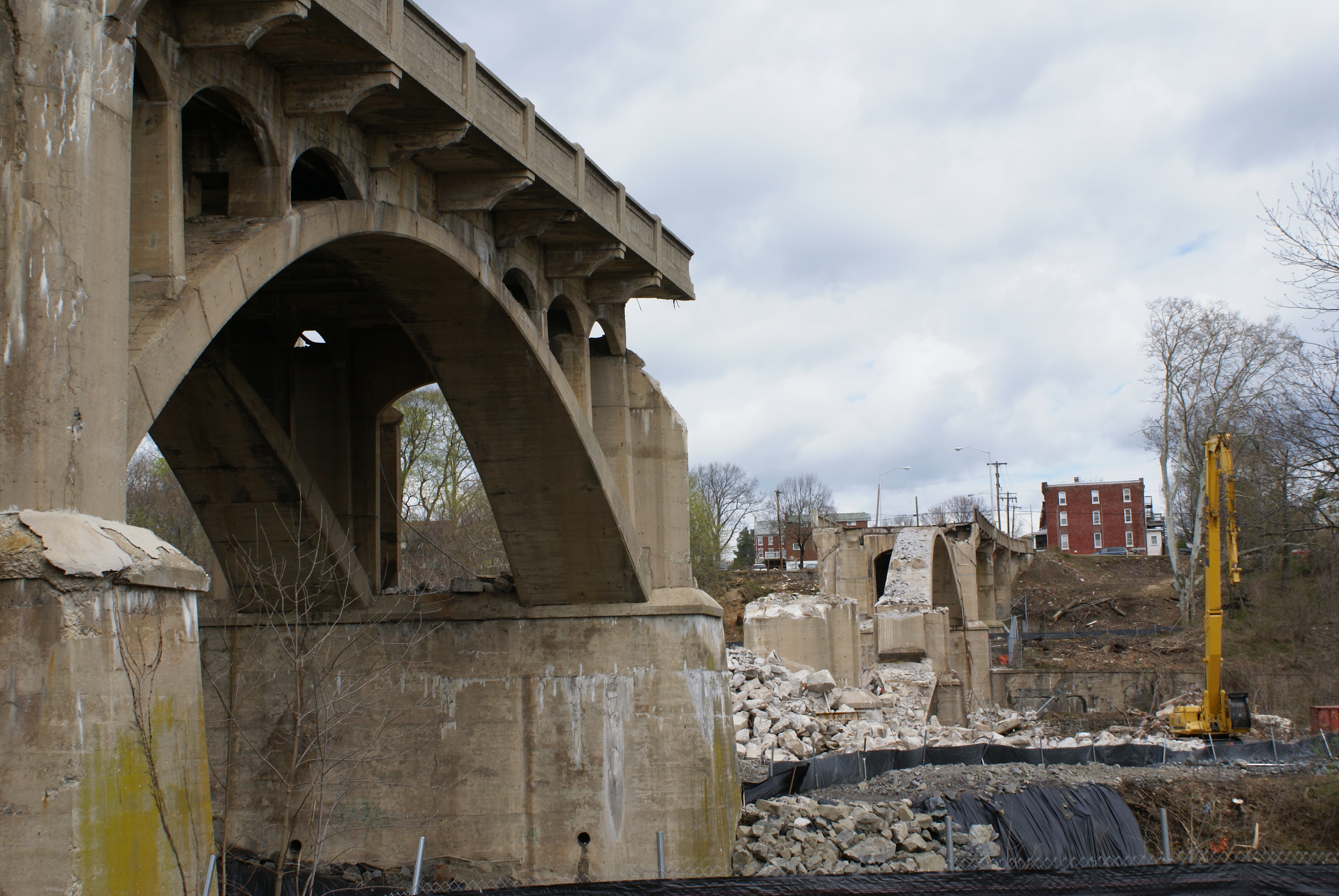 Demolition of Gay Street Bridge in Phoenixville. The bridge crosses the Phoenix Iron Works site and French Creek and normally carries Pennsylvania Route 113. It is being replaced.